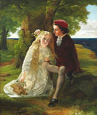 My First Love by Mary Stoddard guess 1880 date